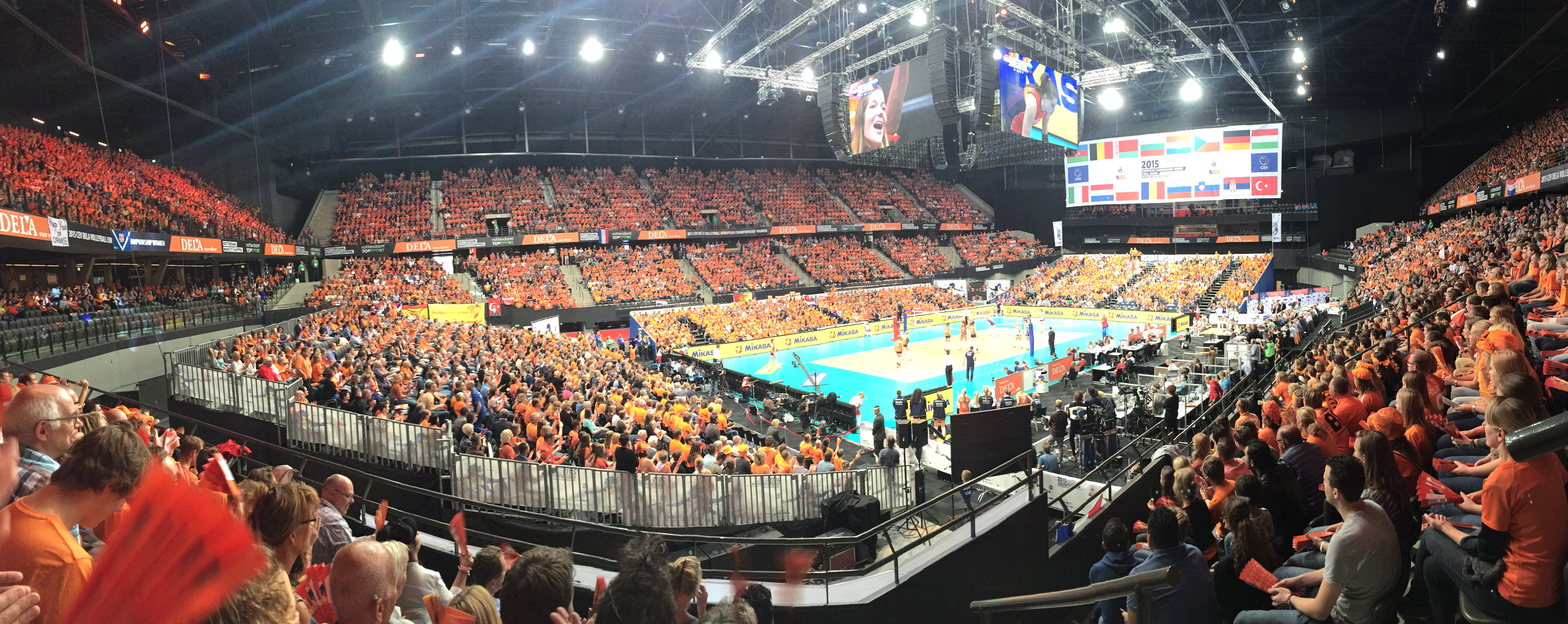 European Women's Championship Volleyball 2016 2015 Women's European Volleyball Championship. Final between the Netherlands and Russia